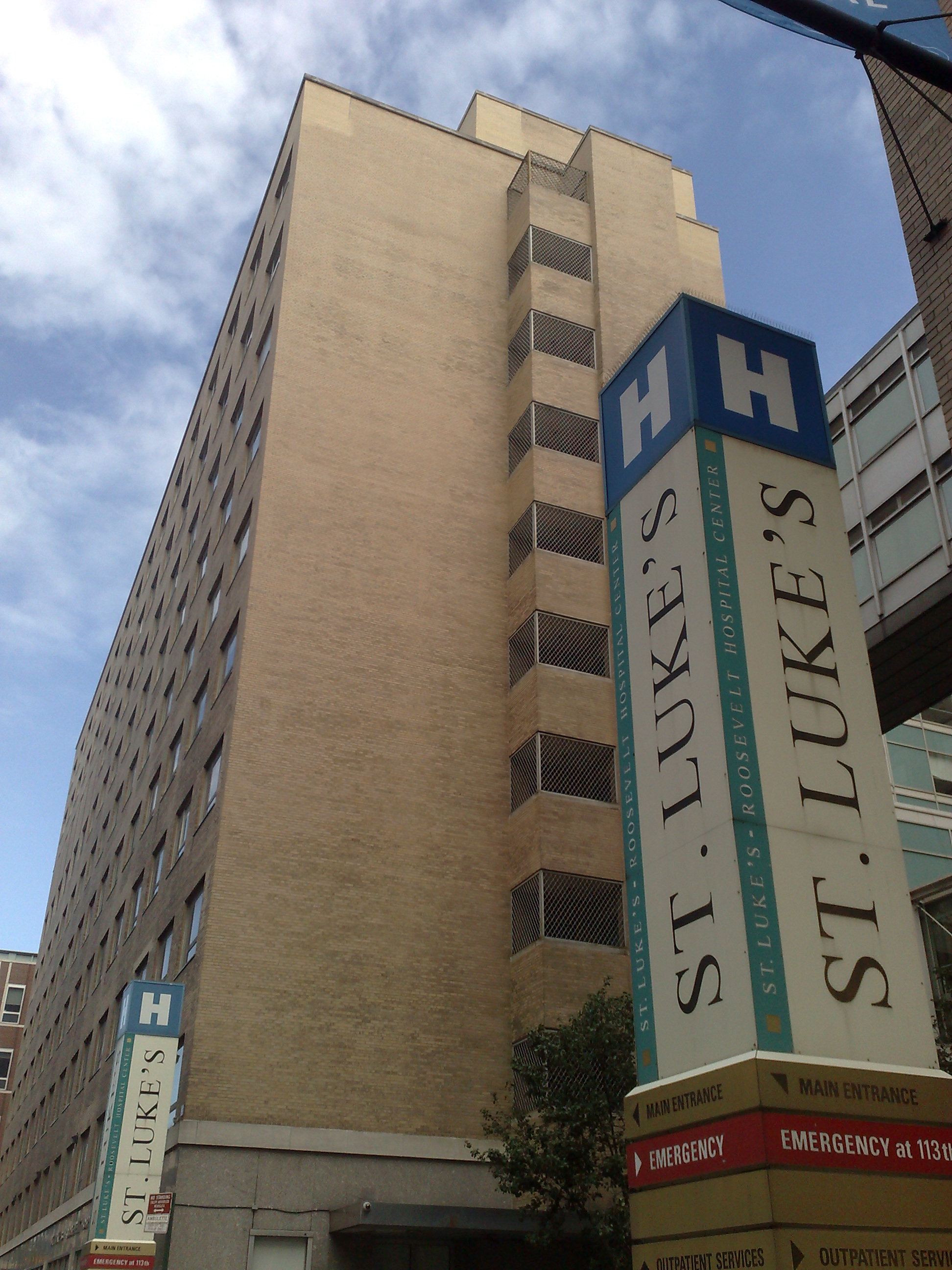 This photo is of Wikis Take Manhattan goal code A18, St. Luke's Hospital.